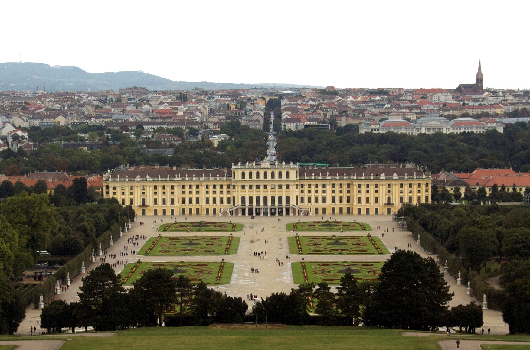 Austria, Vienna, Schönbrunn Palace